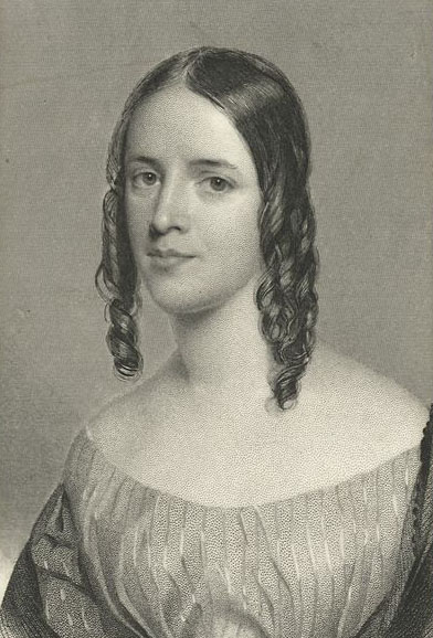 Cropped version of Image:Elizabeth Ellet NYPL 423988.jpg